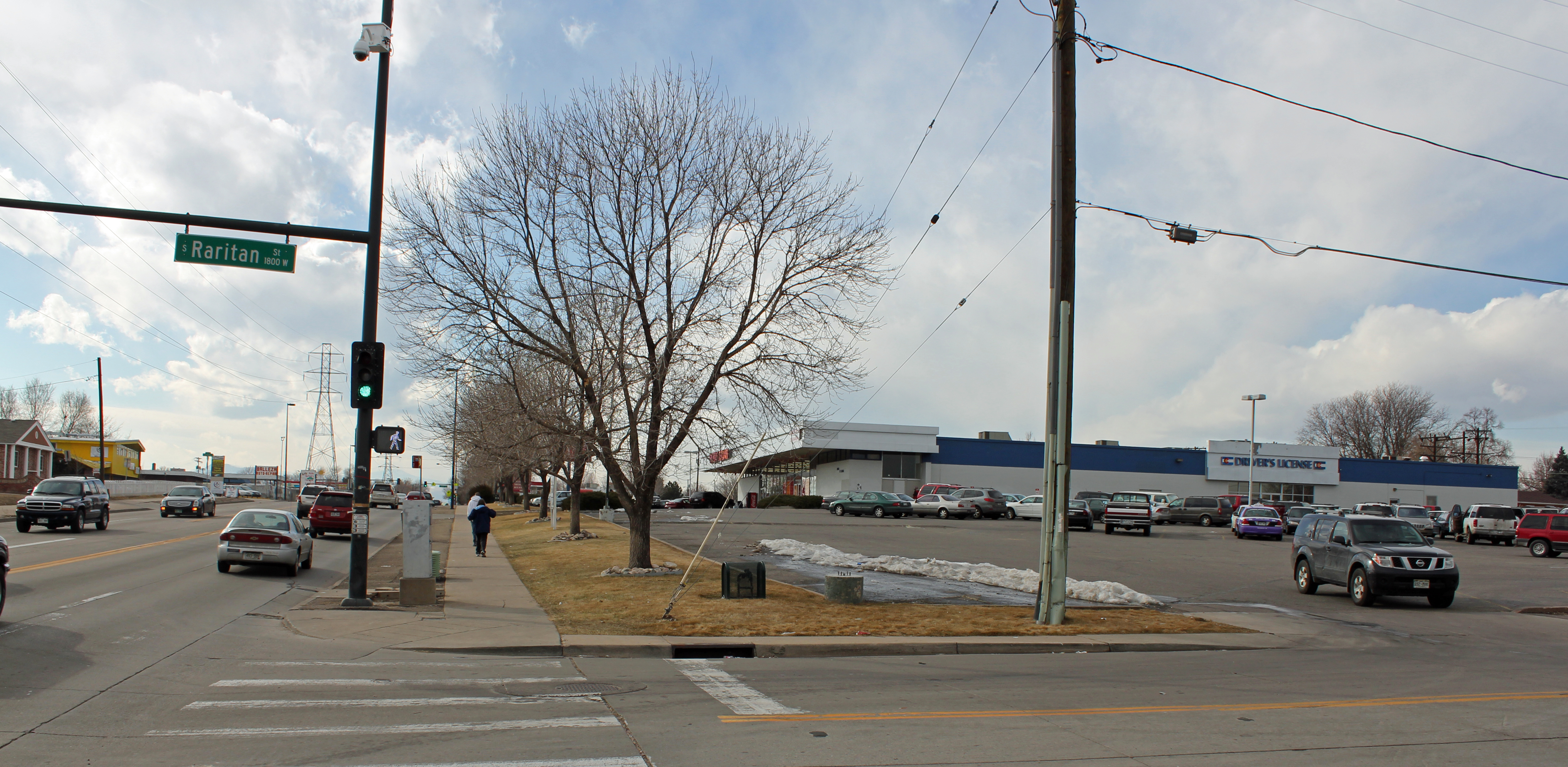 The neighborhood of Athmar Park in Denver, Colorado. The view partially shows the intersection of Raritan Street and West Mississippi Avenue in Denver. It also shows the Colorado drivers' license office.